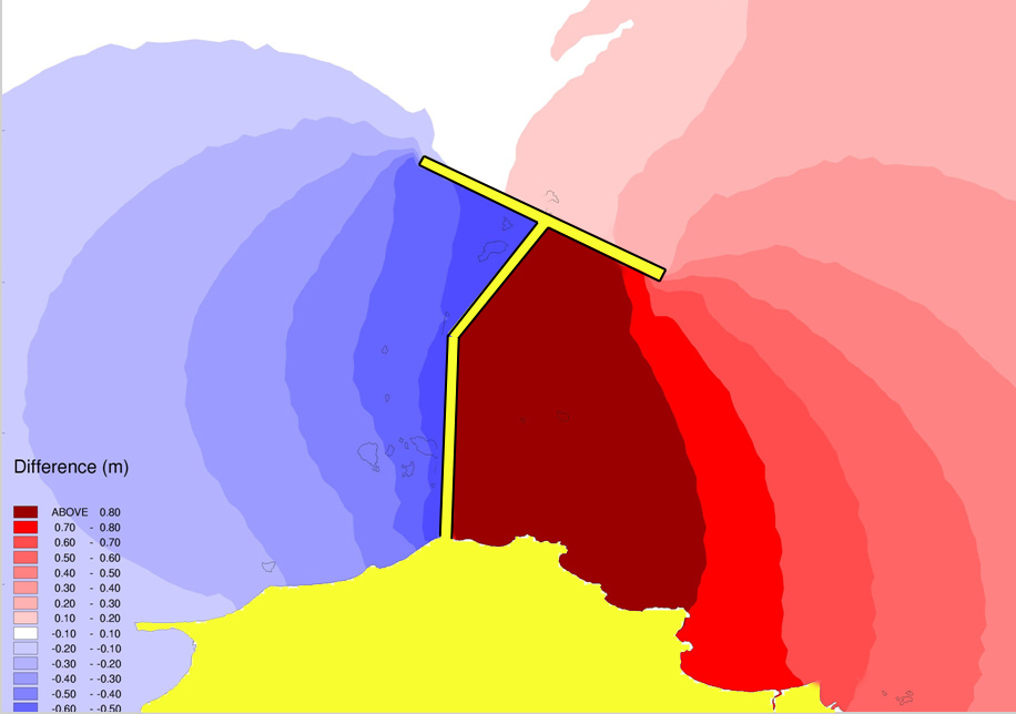 Top-down view of a DTP T-dam. Blue and dark red colors indicate low and high tides, respectively. Note that the level of the tide is both high and low simultaneously at opposite sides of the dam.